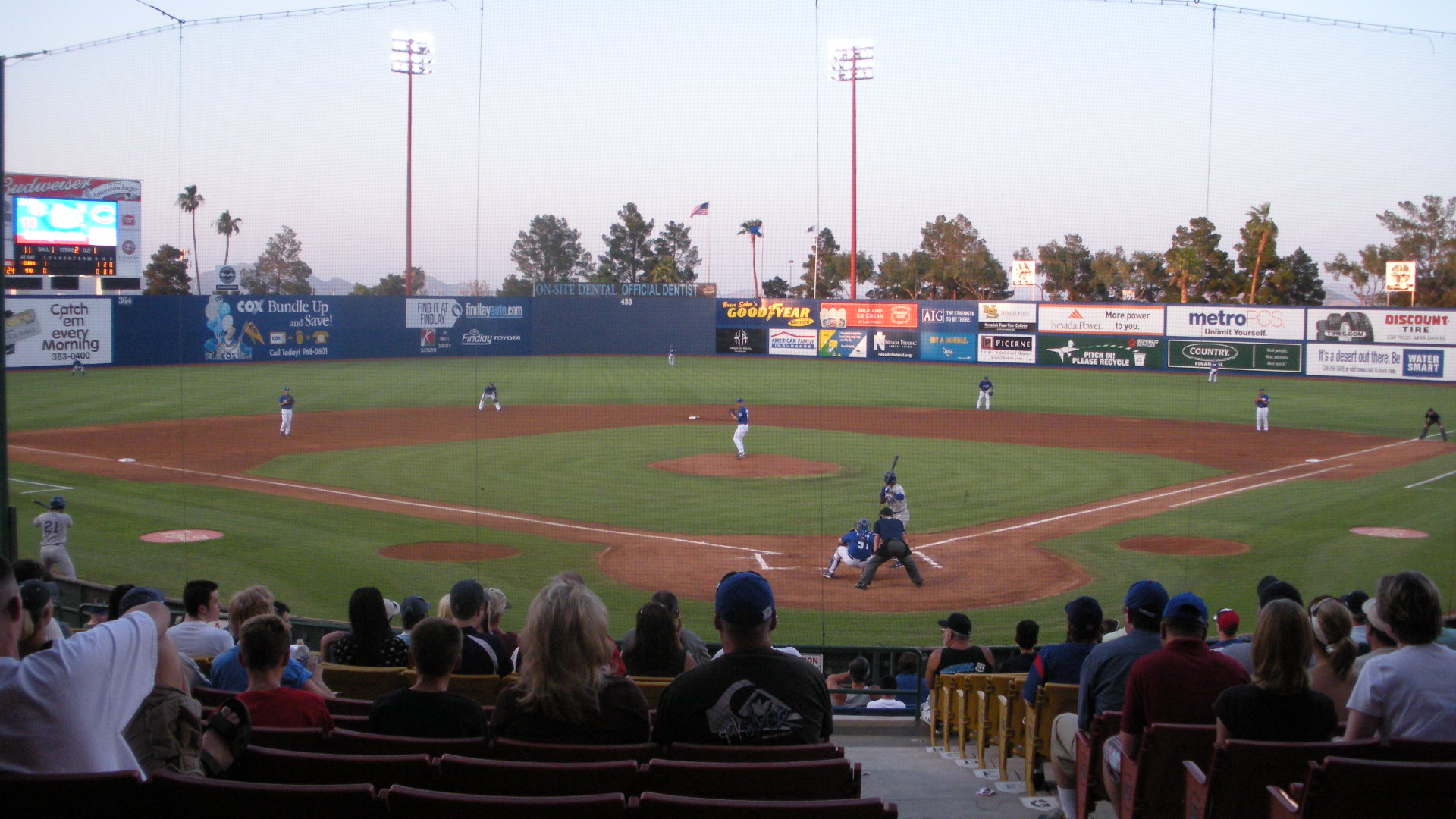 Inside of Cashman Field. Las Vegas 51s vs Iowa Cubs, taken by private Camera on 28 July 2008